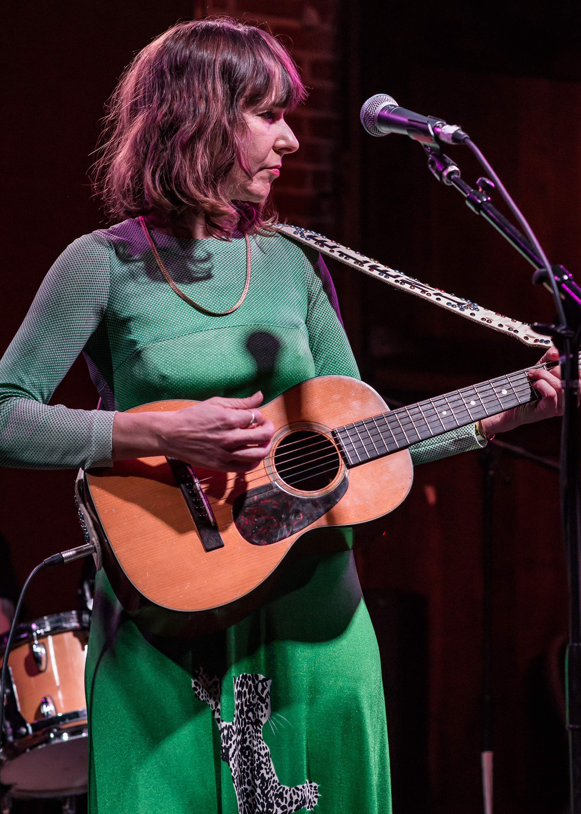 Eleni Mandell performing in Los Angeles in January 2017